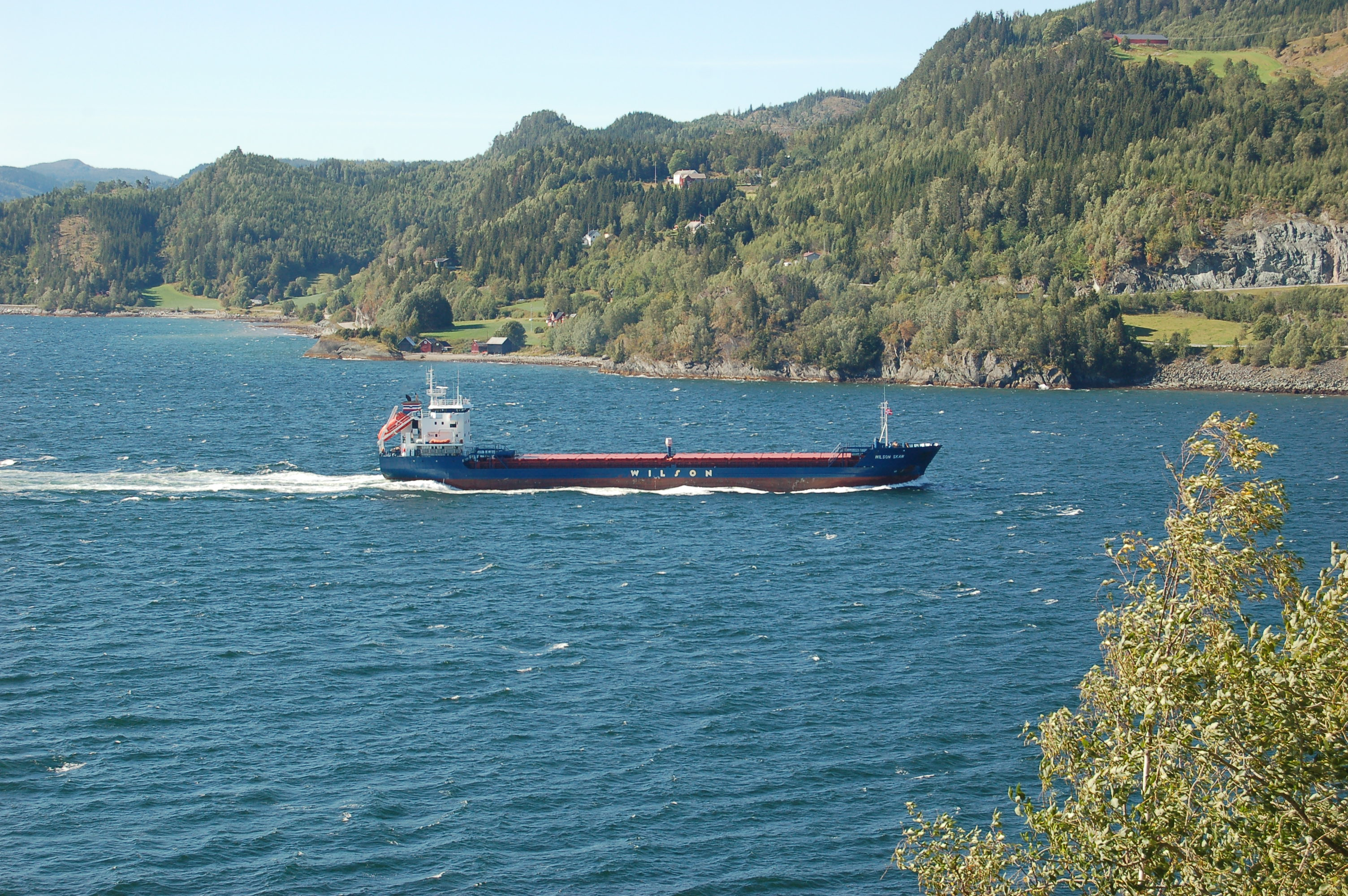 Wilson ASA of Norway short sea cargo ship heading into Skarnsund of the Trondheimsfjord. Name of Ship: WILSON SKAW IMO Number: 8918459 Callsign: C6SQ9